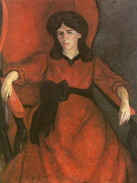 Lisa in a chair